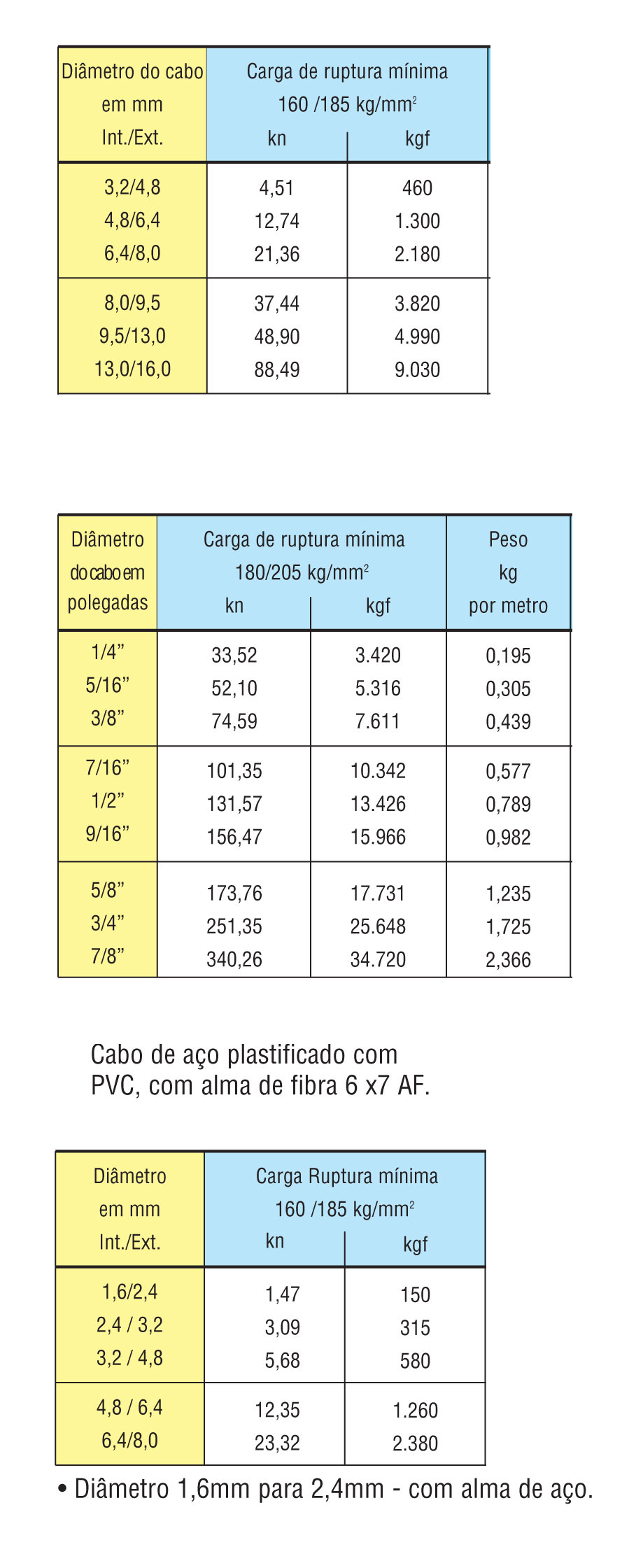 Tabela de Resistência